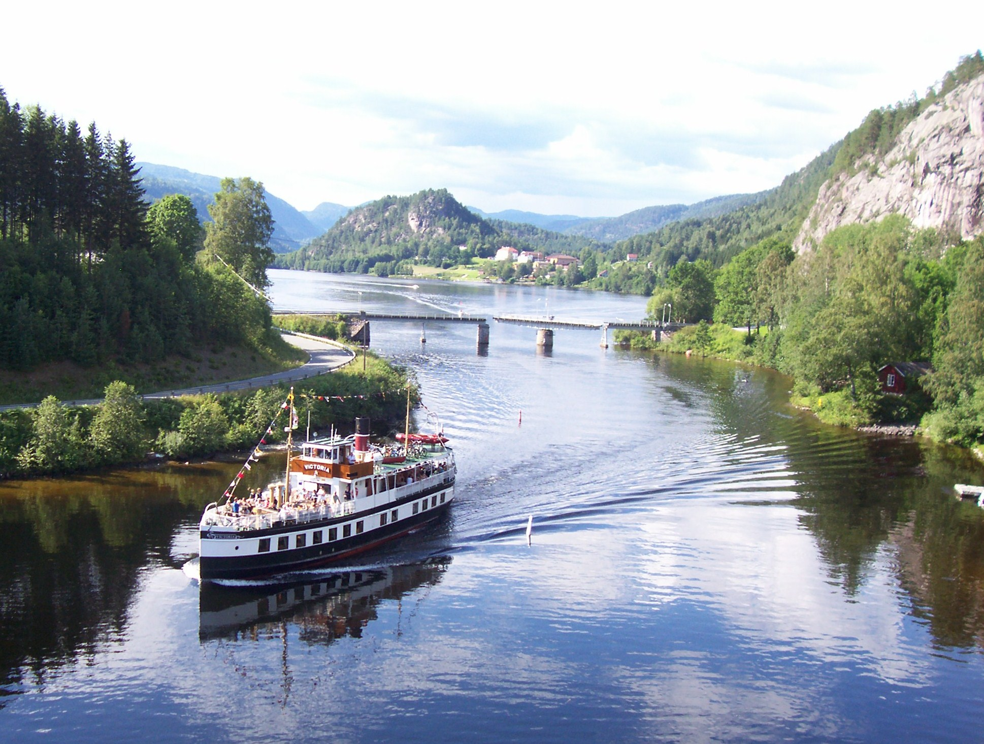 MV Victoria, a tourist boat in the Telemark Canal, at Sundkilen bru near Kviteseid. Pic 3 of 3